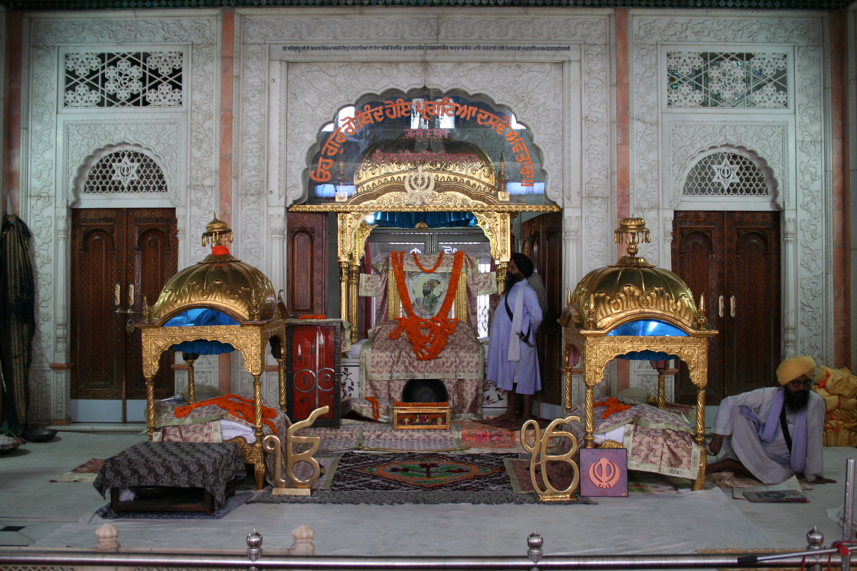 Birth Place of Guru Gobind Singh